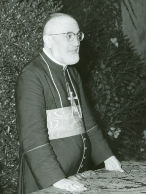 Cardinal Agagianian speaking at a missionary medical conference